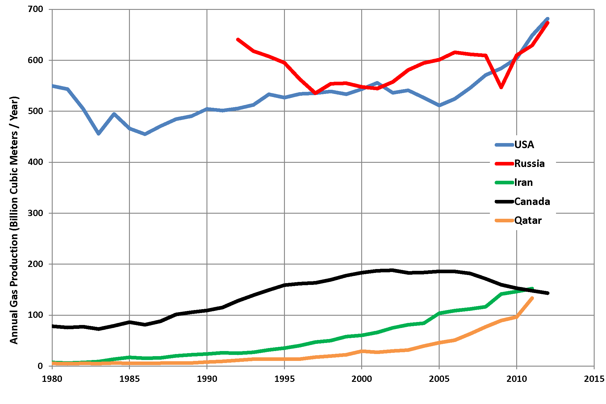 Trends in the top five natural gas-producing countries (US EIA data)